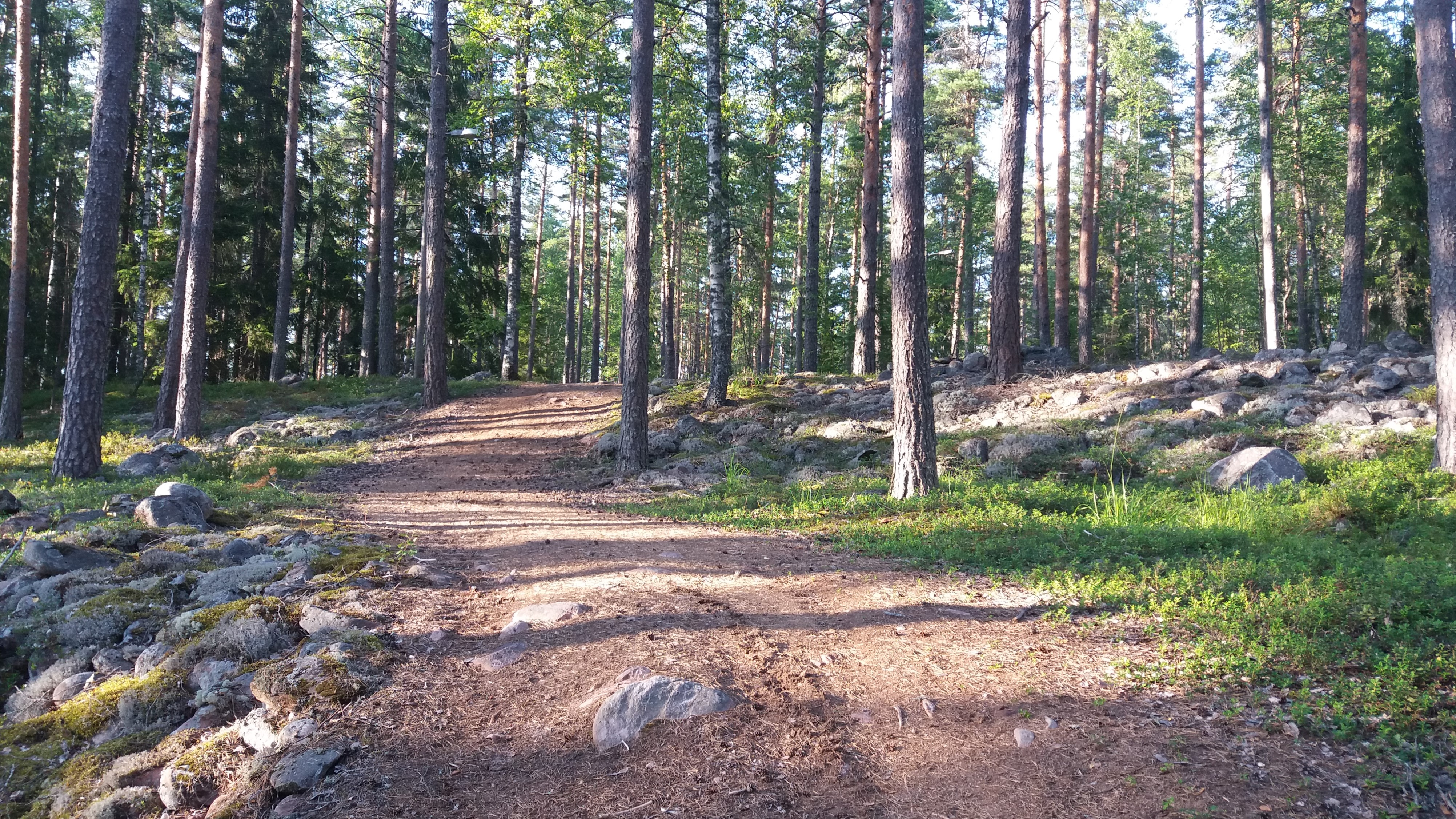 Järilänvuori, Kokemäki, Finland.